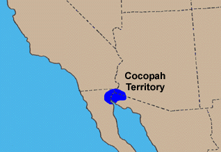 Map of Cocopah Tribe Territory